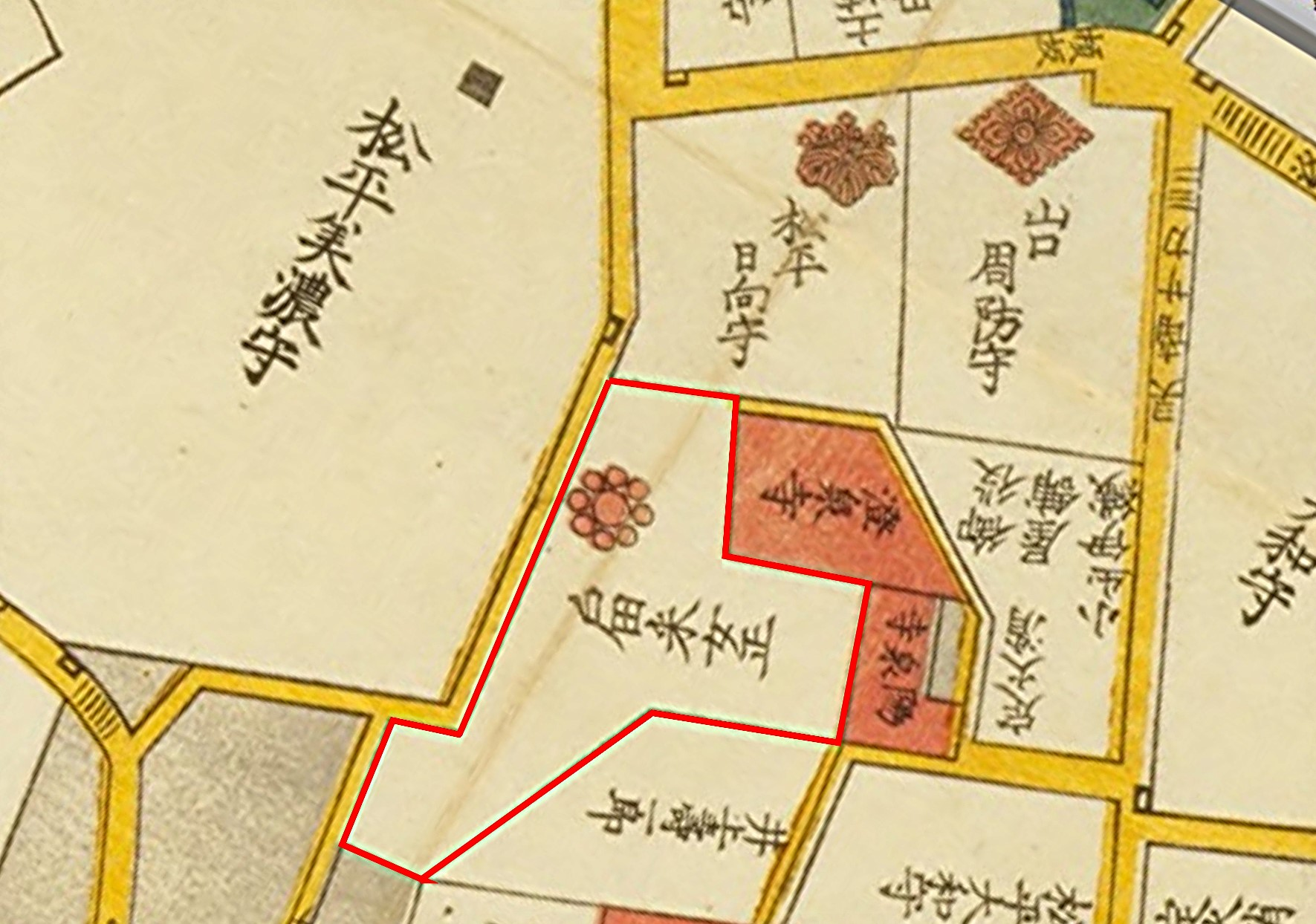 Residence of Ogaki clan at Edo